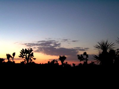 Sunset at Black Rock campground, Joshua Tree National Park 2004/08/11